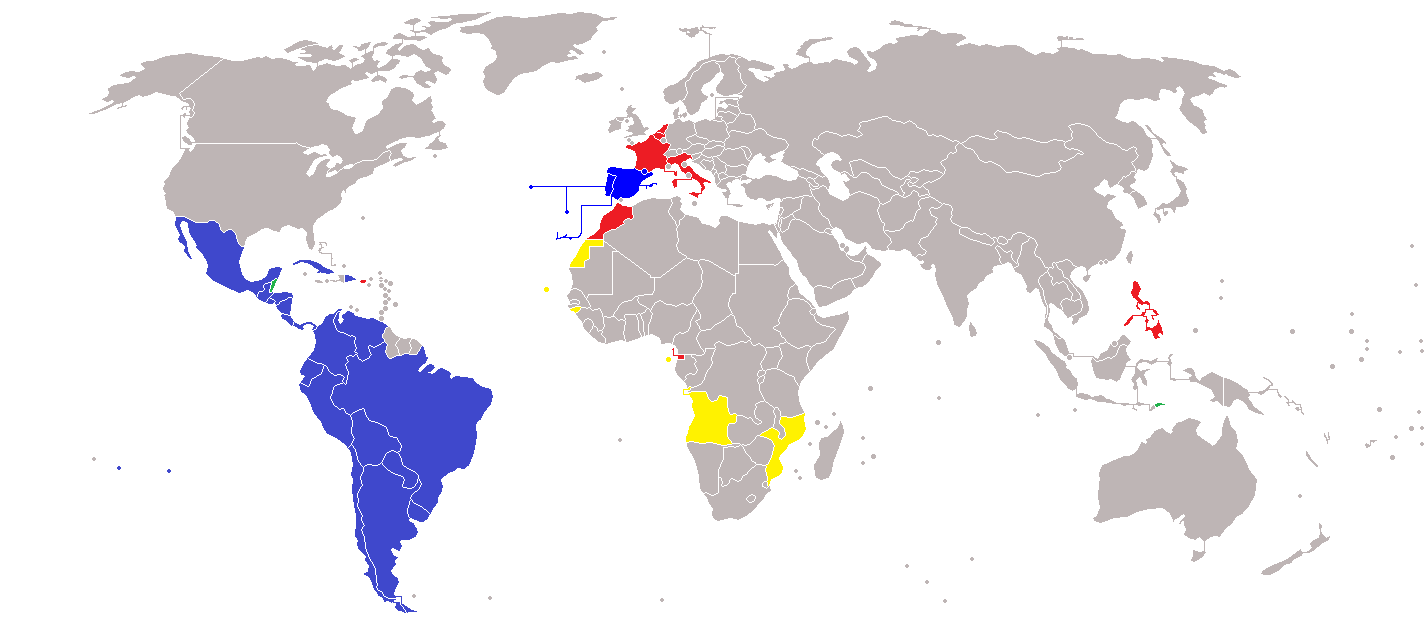 Ibero-American Summit